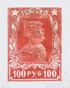 The 70r Red Army Soldier error